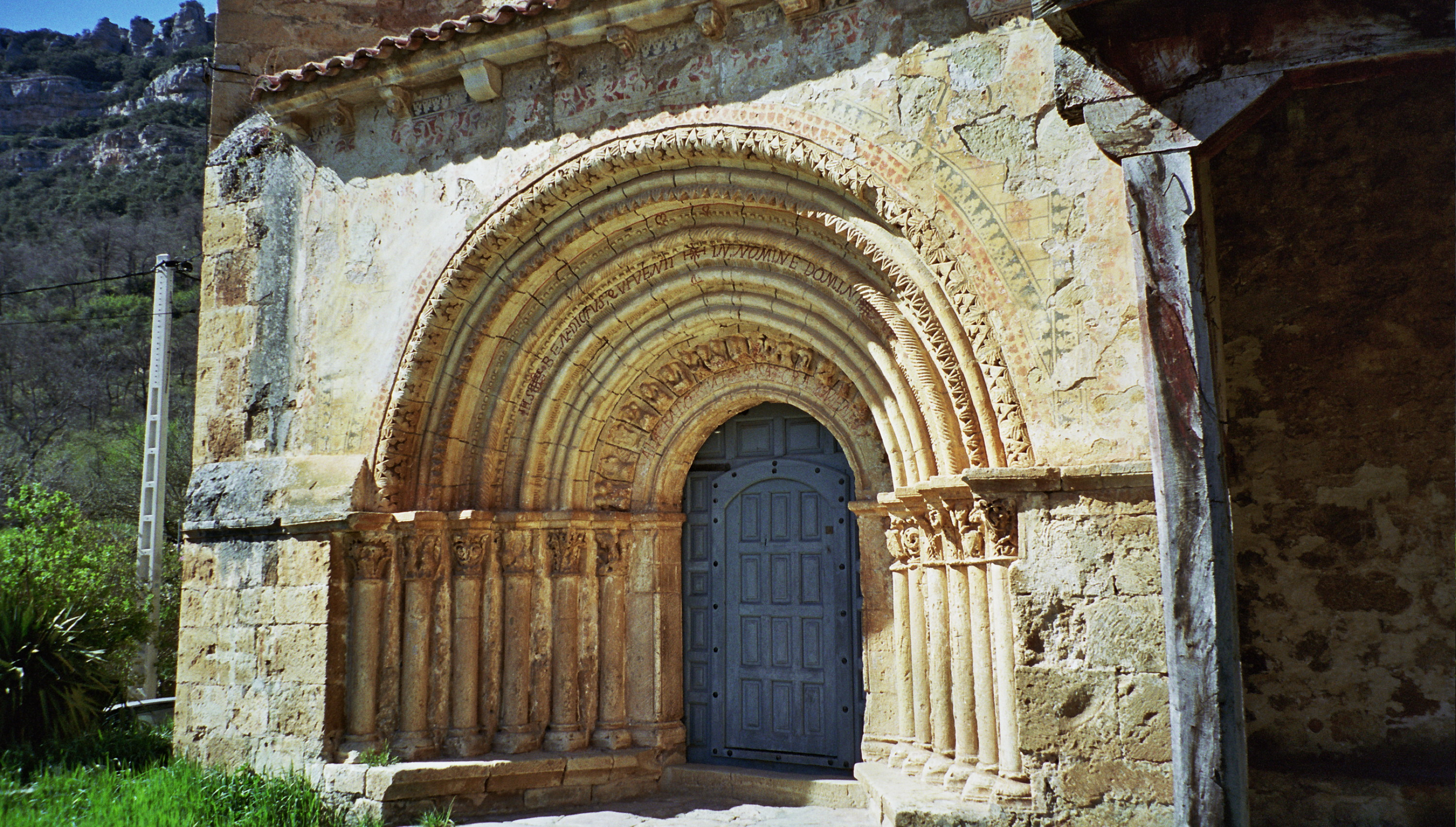 Romanesque portico, Escalada, Burgos (Spain).